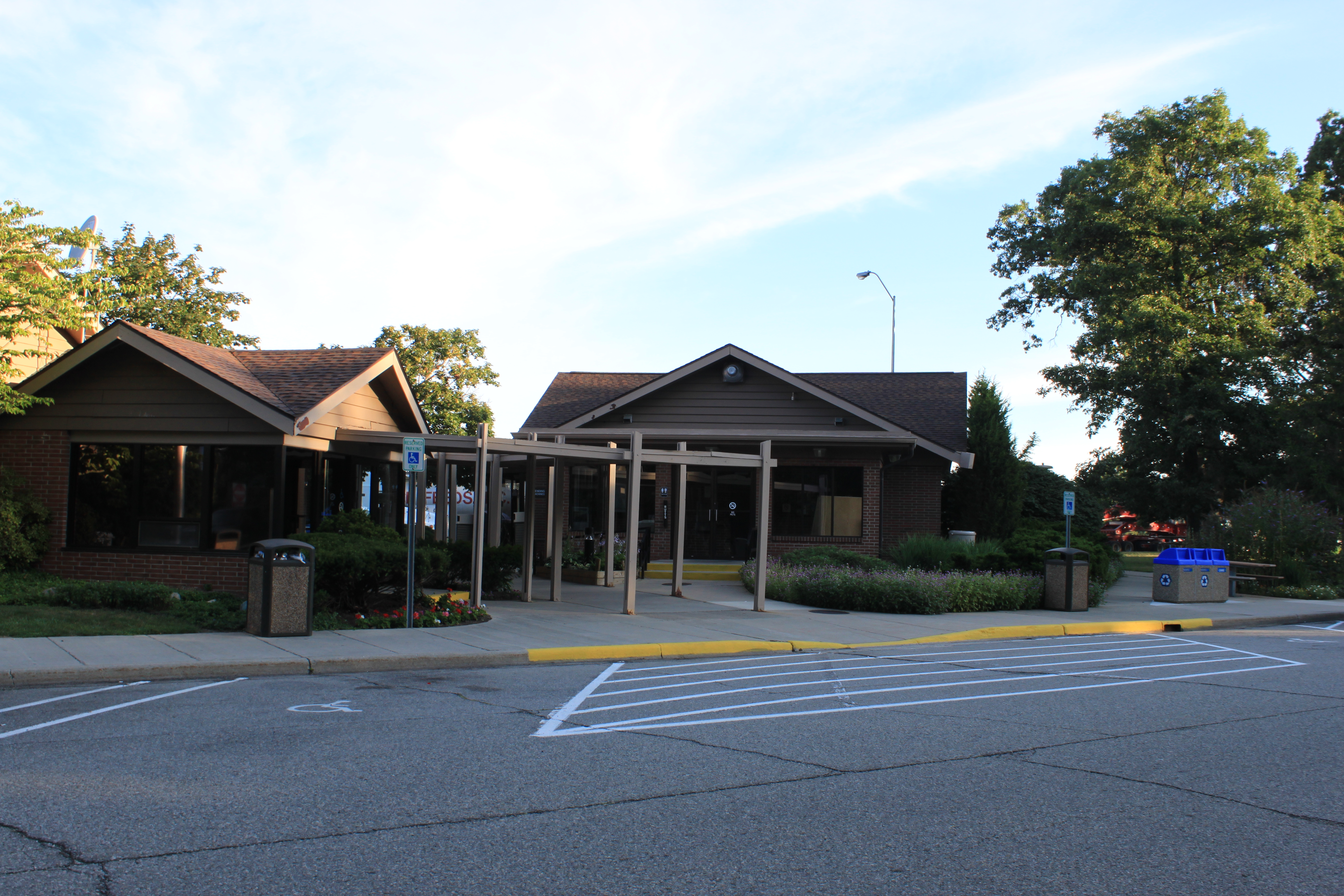 US 23 Michigan Welcome Center and rest stop near Samaria (mile marker 7)